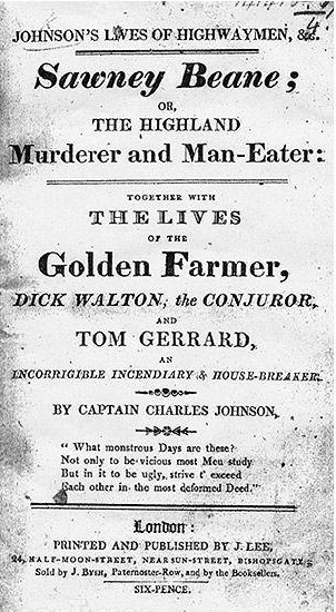 Captain Charles Johnson's Lives of Highwaymen.